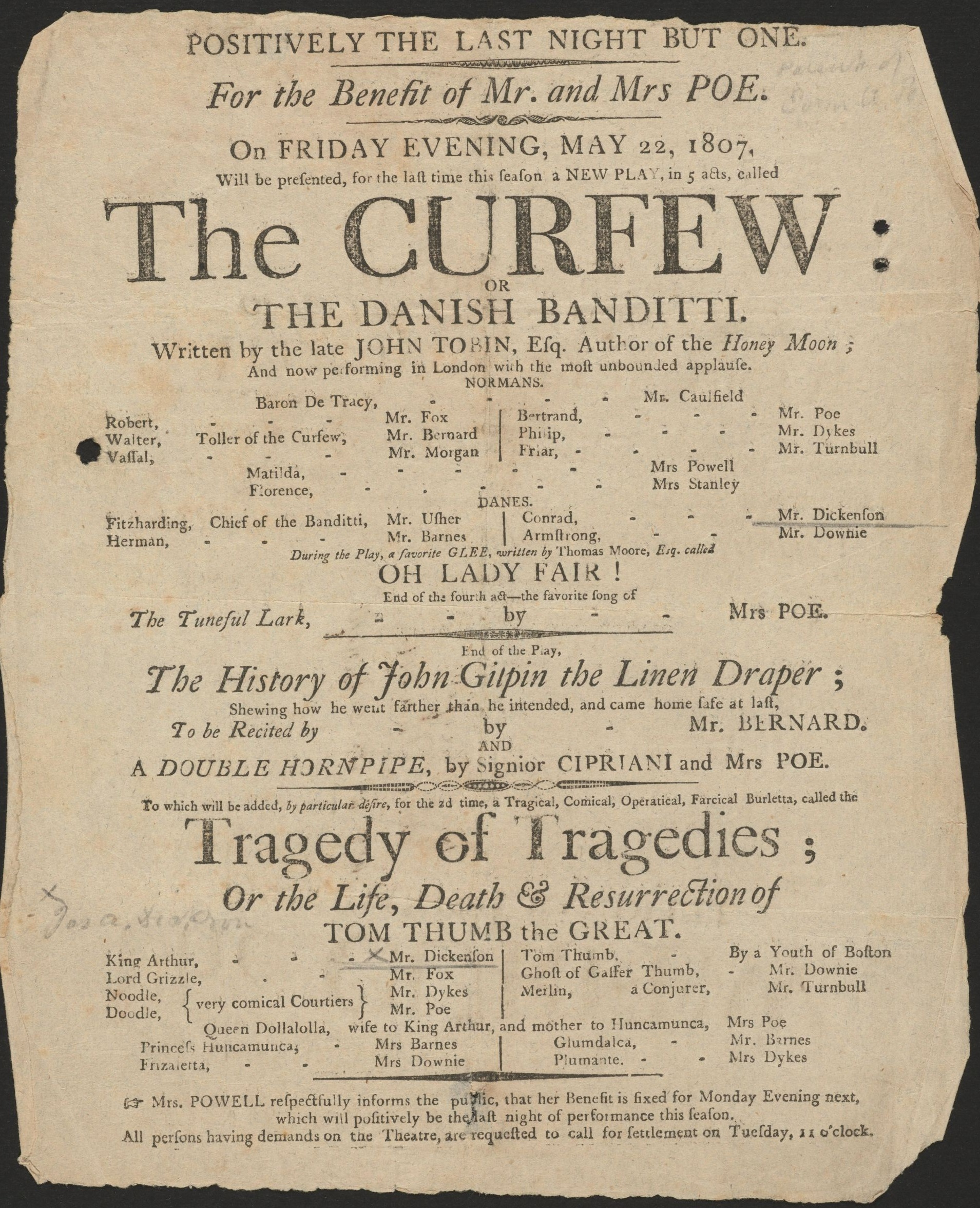 Playbill for The Curfew: or The Danish Banditti, May 22, 1807. Performers included David Poe and Eliza Poe, parents of Edgar Allan Poe. The playbill notes the performance is "For the Benefit of Mr. and Mrs. Poe". Early American playbills (Folder 13), Houghton Library, Harvard University